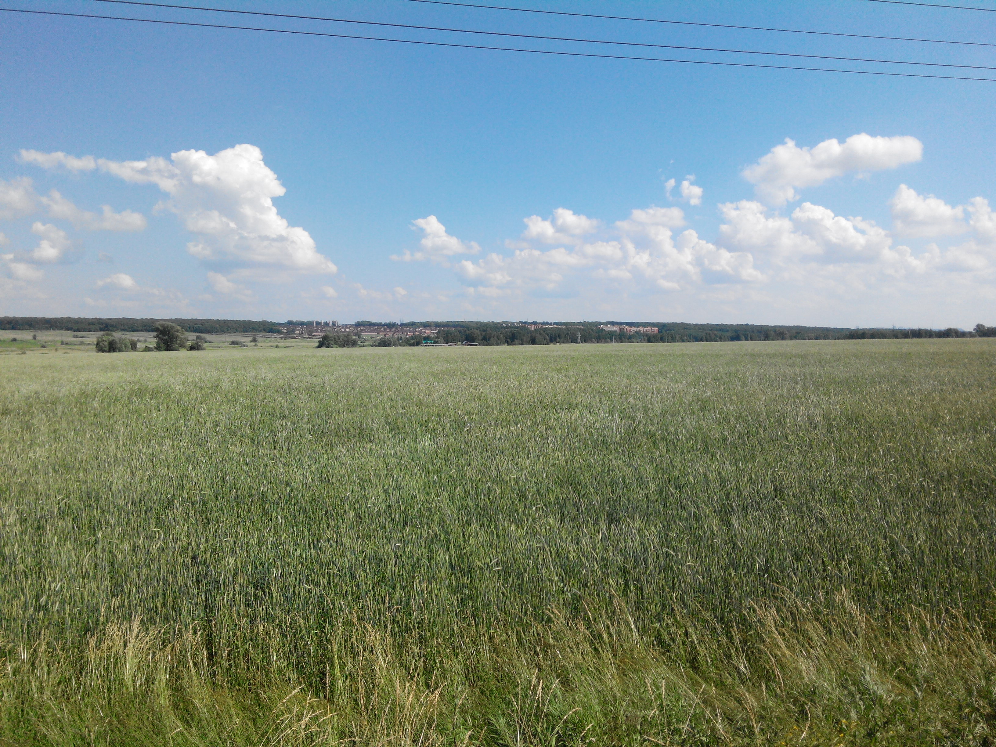 field near the village Mudarisov